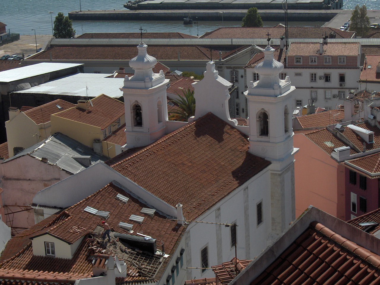 The church "Igreja São Miguel", seen from the Miradouro S. Luzia; Lisbon, Portugal